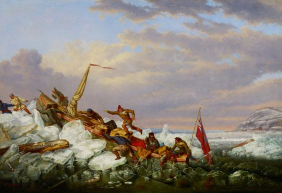 Mail Boat Landing at Quebec by Cornelius Krieghoff, 1860, oil on canvas, 42.5 x 62.0 cm, The Thomson Collection, Art Gallery of Ontario